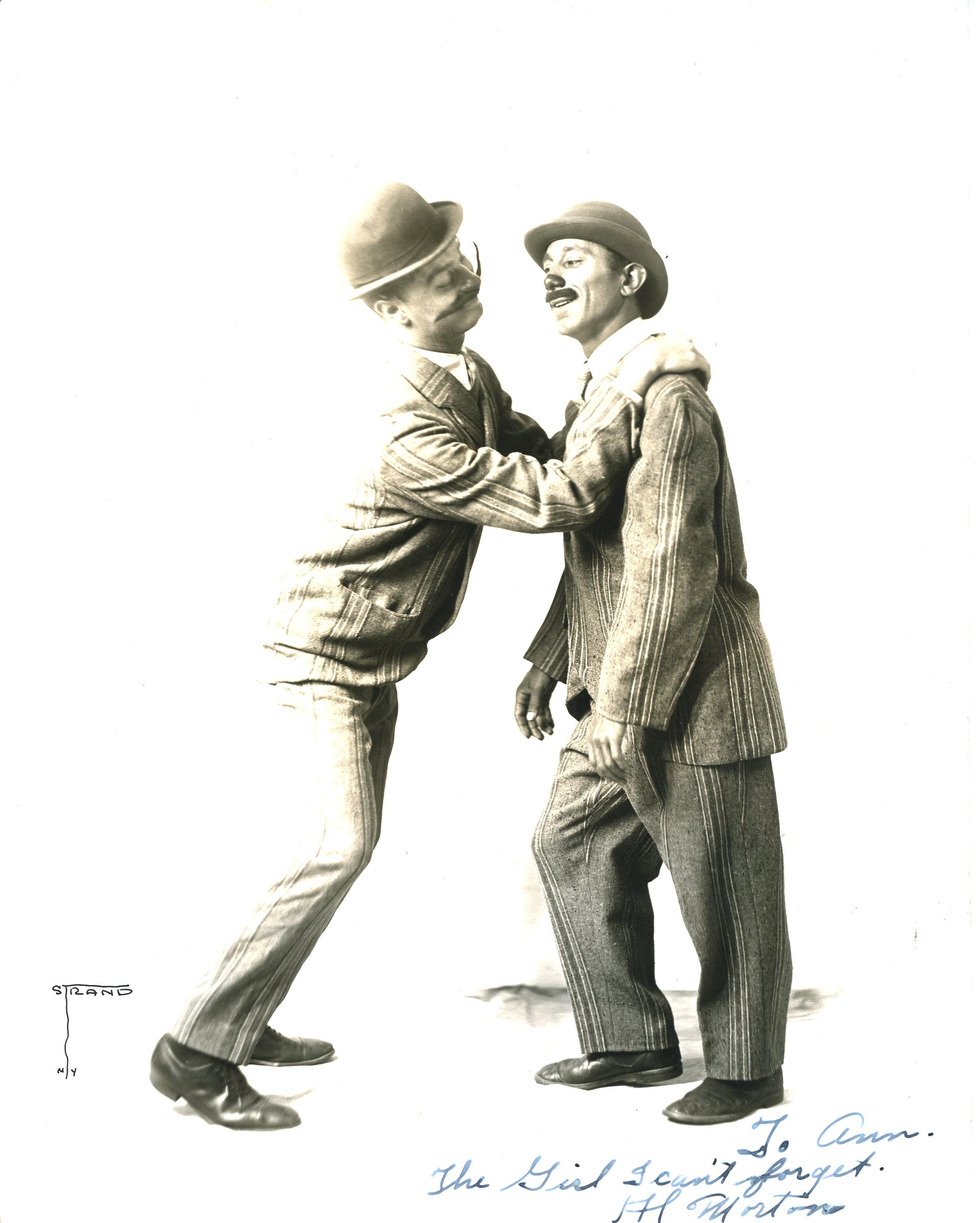 Morton and Mayo Promo